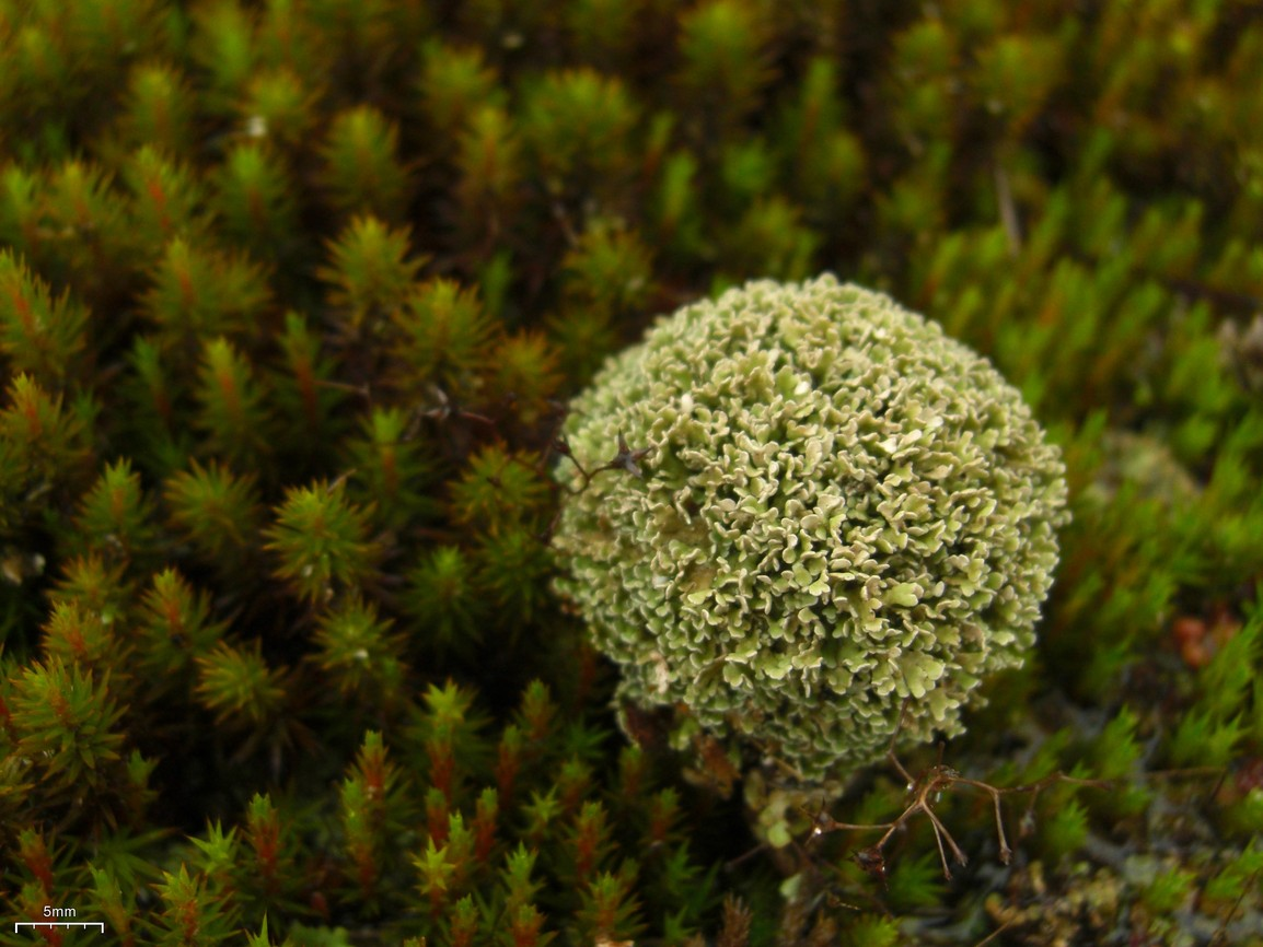 Cladonia strepsilis 20100311.19 US, GA, near Augusta, Heggie's Rock